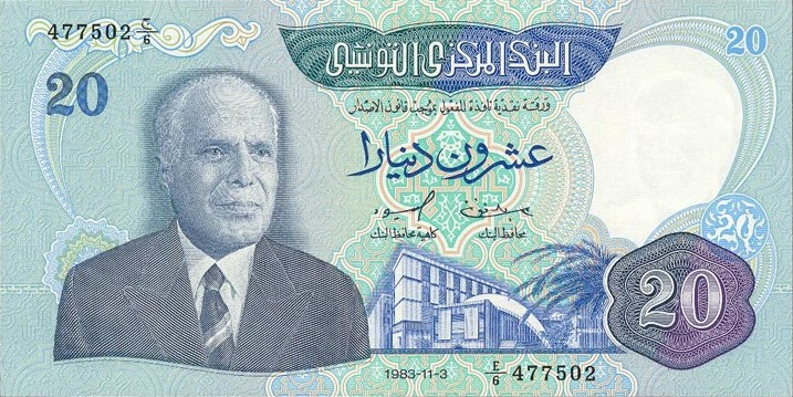 20 TND banknote issued in 03.11.1983, Tunisia.